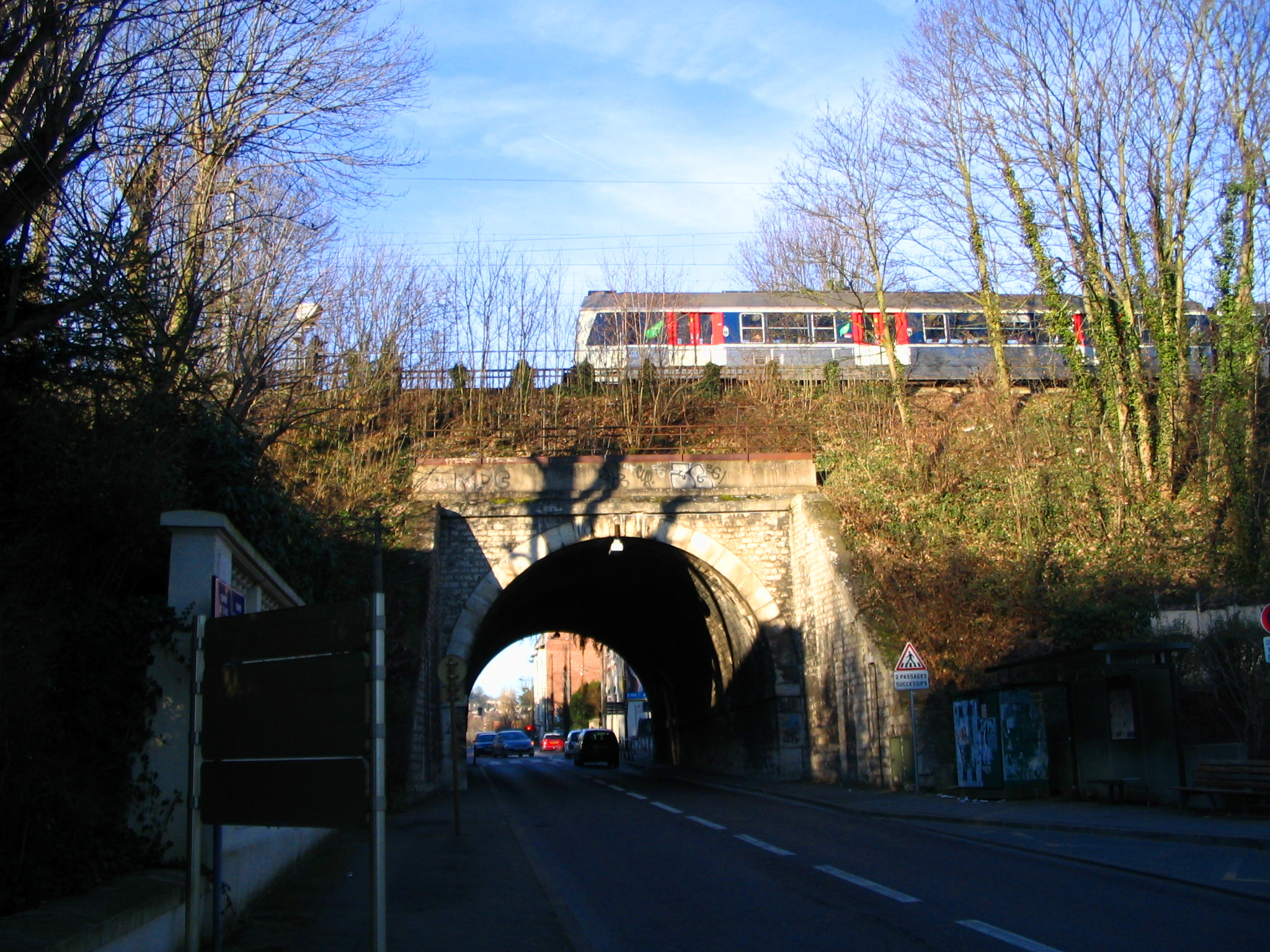 Rail bridge over a street near the train station of Sèvres - Ville d'Avray, Hauts-de-Seine, France, with a train to Versailles - Rive Droite / La Verrière on it.